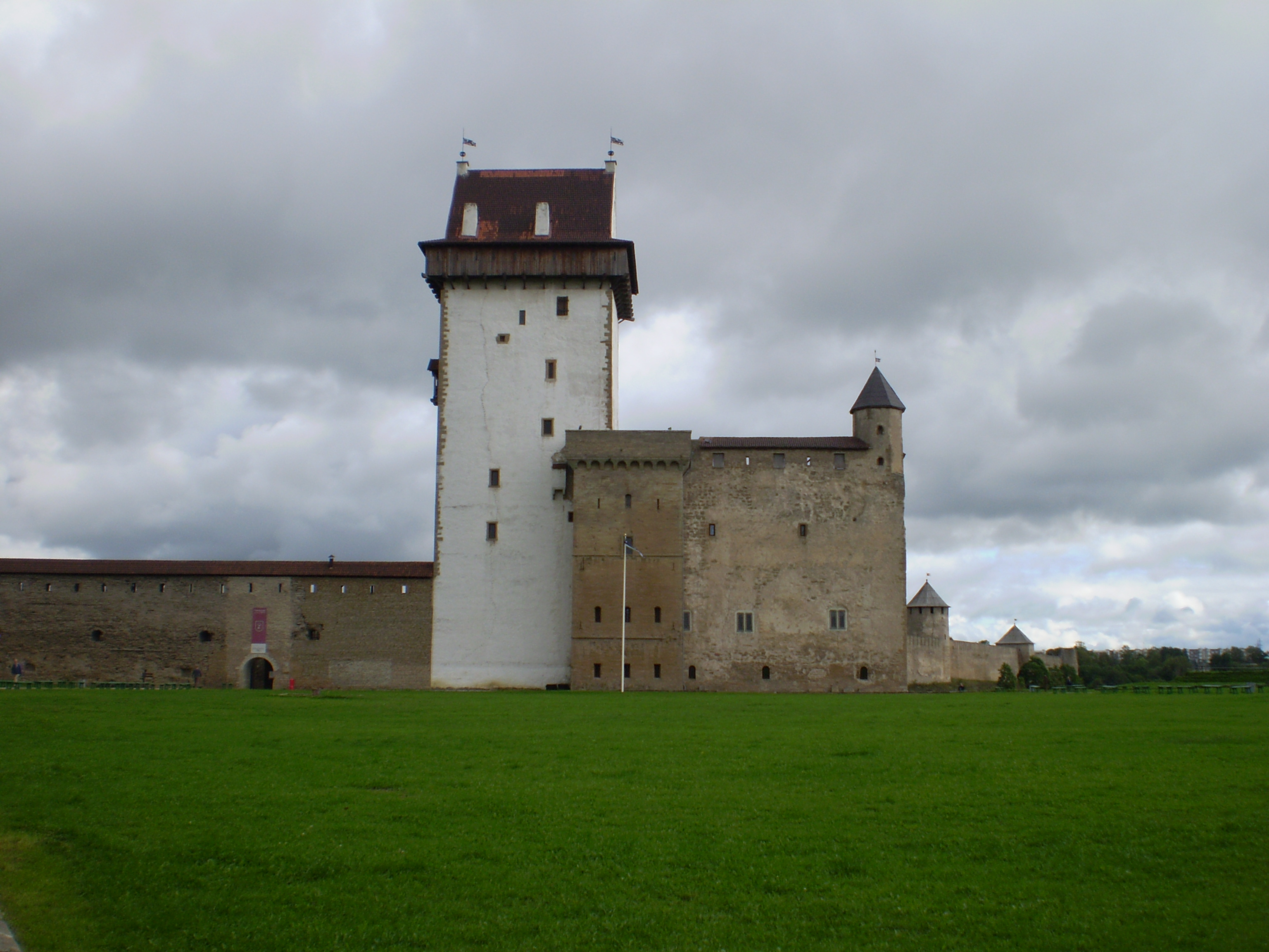 Herman Castle in Narva, Estonia.